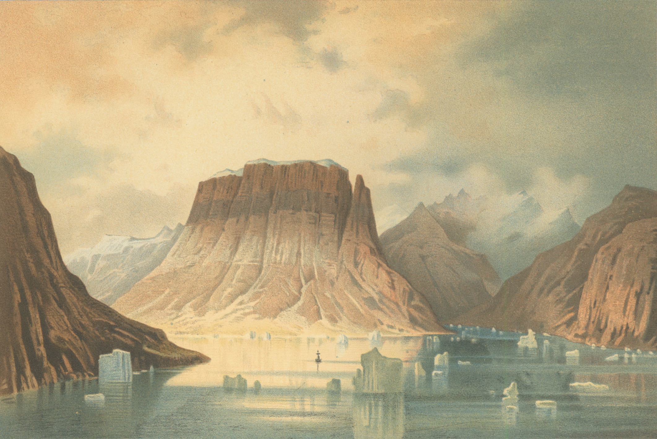 Painting of the Teufelsschloss in Kaiser-Franz-Joseph-Fjord, East Greenland. Painted after drawings and descriptions of the members of the second German northpolar expedition with HANSA and GERMANIA to the Arctic and Greenland in 1869/70.